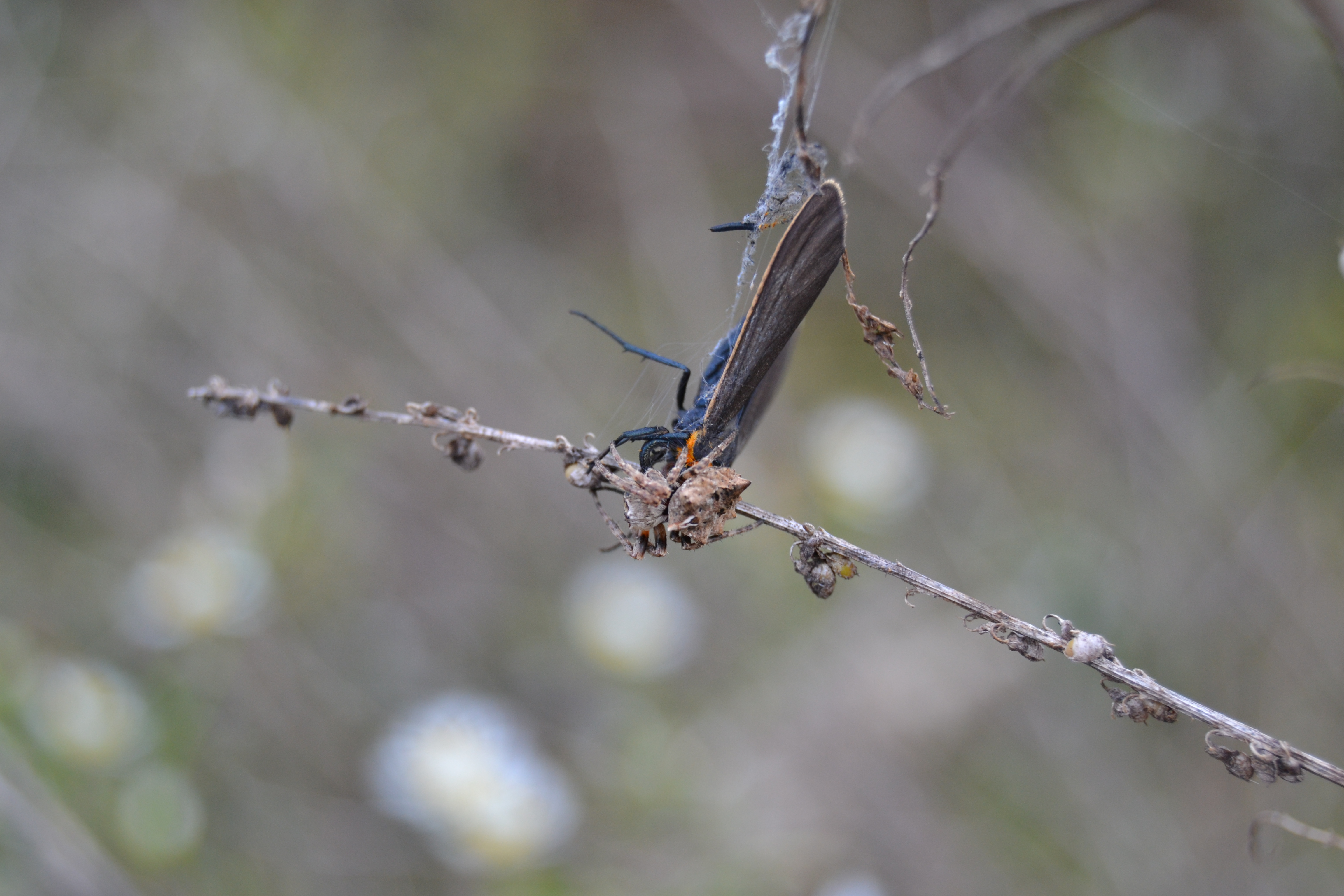 Rentschler Forest Metropark, Fairfield Township, Ohio